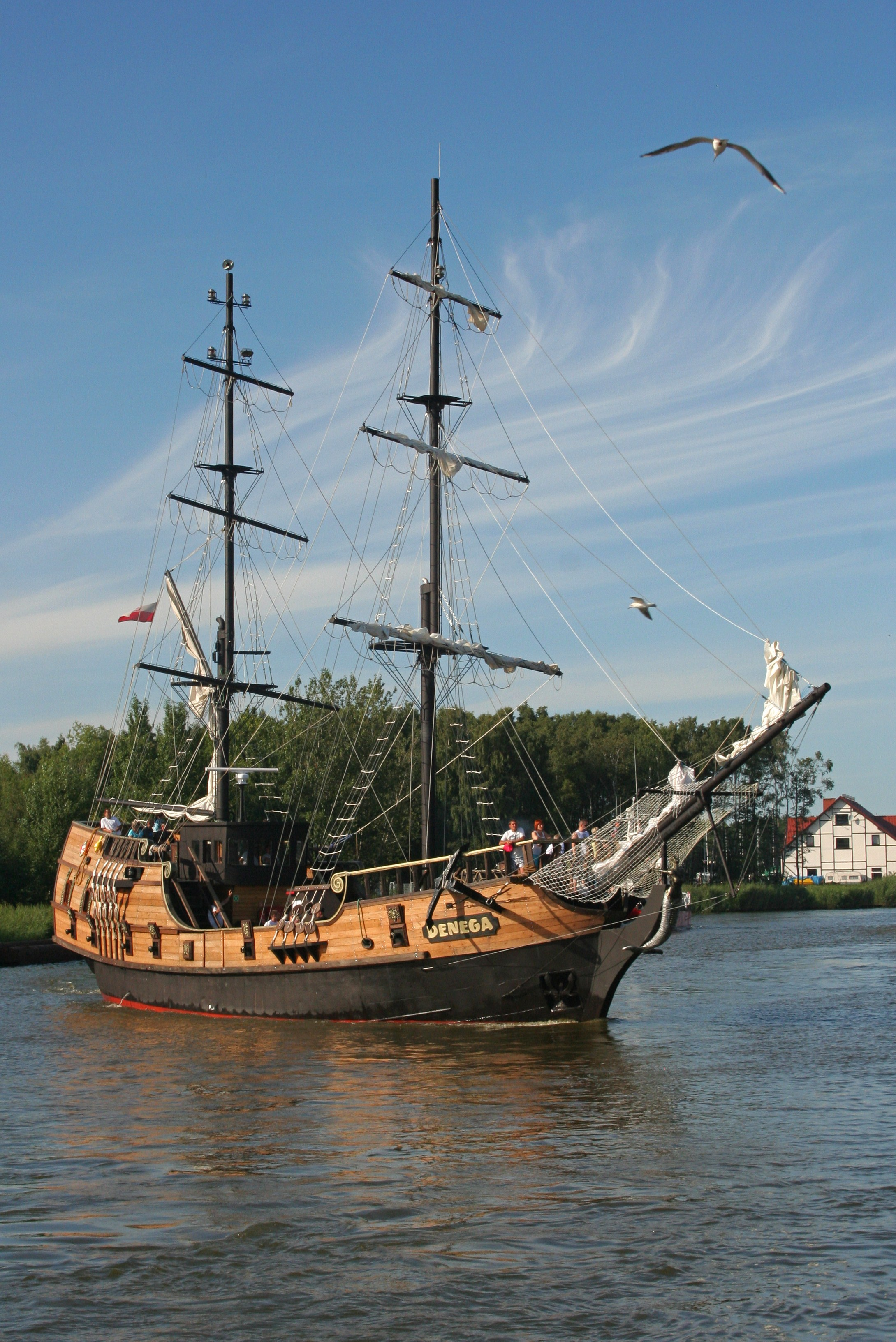 Tall ship in port of Łeba.